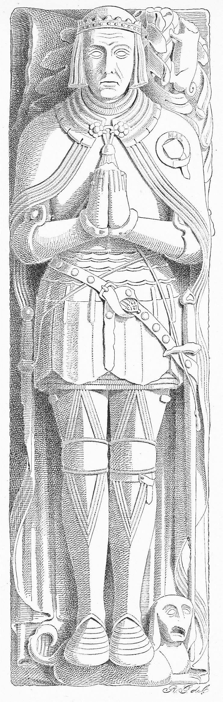 Drawing of the effigy in St Akmund's parish church, Whitchurch, Shropshire of John Talbot, 1st Earl of Shrewsbury, KG